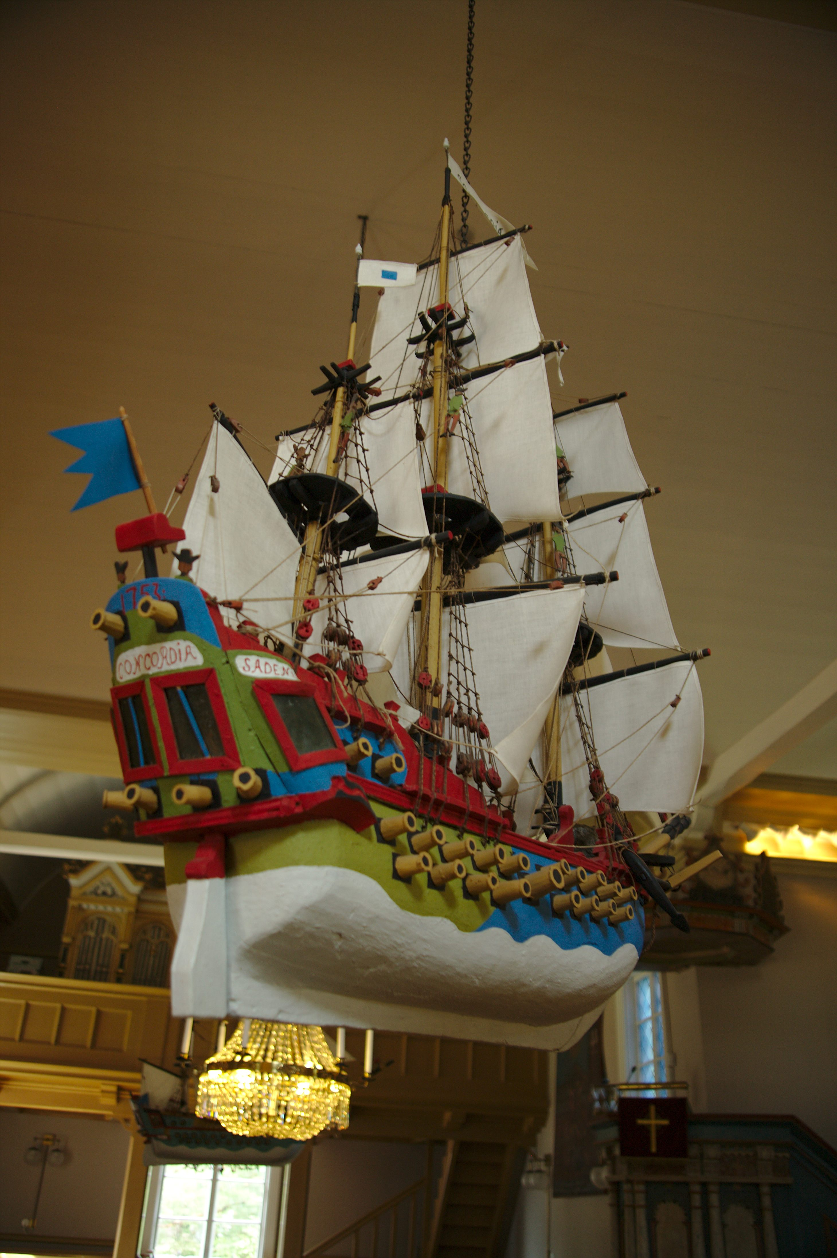 The votive ship in Kustavi Church in Kustavi, Finland.